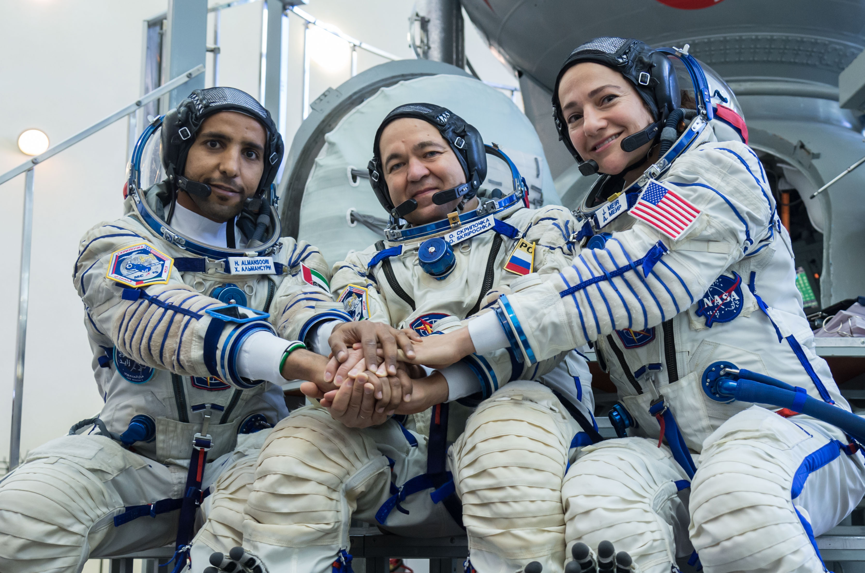 At the Gagarin Cosmonaut Training Center in Star City, Russia, spaceflight participant Hazzaa Ali Almansoori of the United Arab Emirates (left), Oleg Skripochka of Roscosmos (center) and Jessica Meir of NASA (right) pose for pictures Aug. 30 during crew qualification exams. They will launch Sept. 25 on the Soyuz MS-15 spacecraft from the Baikonur Cosmodrome in Kazakhstan for a mission on the International Space Station.